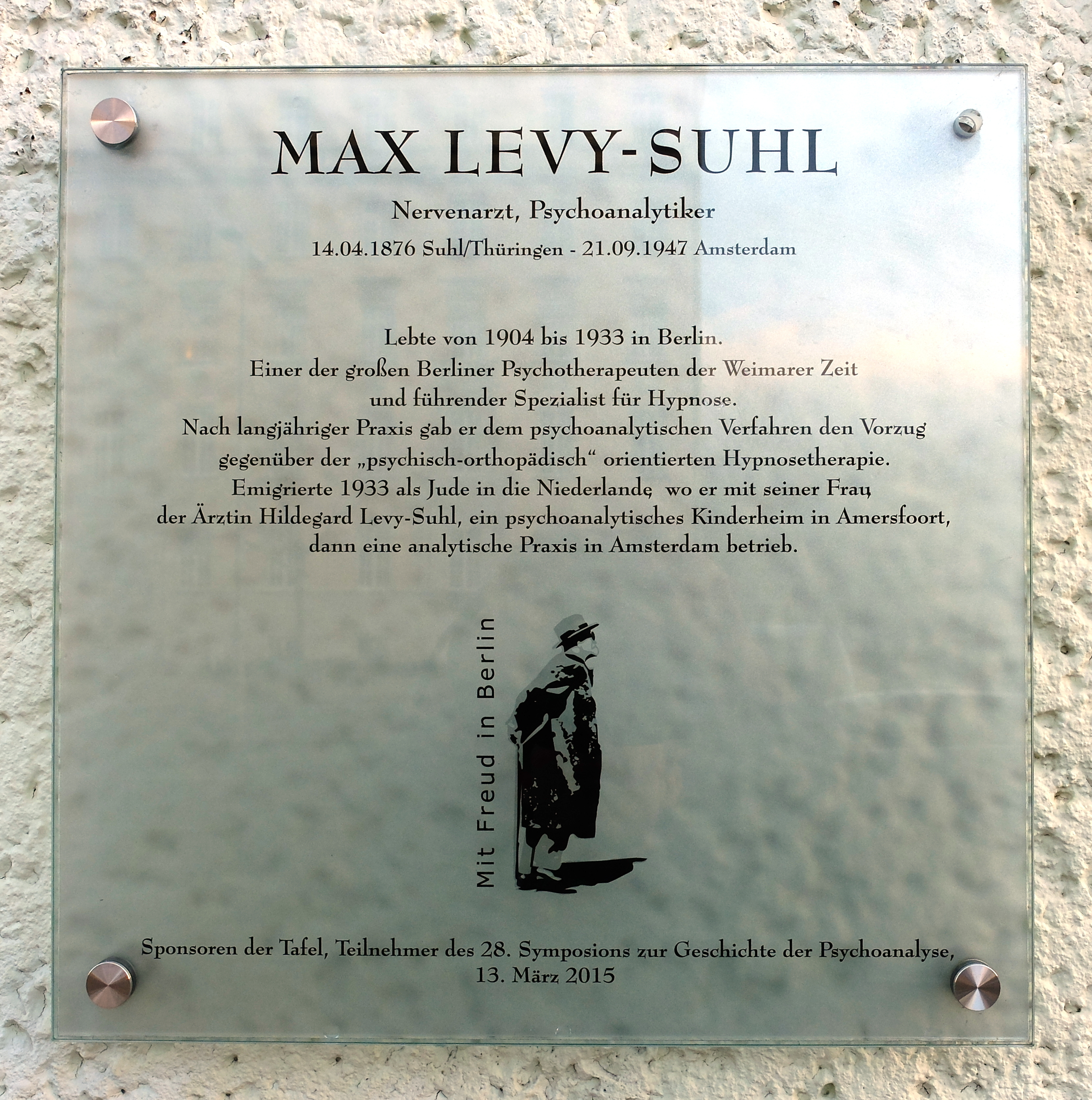 Commemorative plaque for the german psychotherapist and psychoanalyst Max Levy-Suhl, Bundesallee 156, Berlin, part of the project Mit Freud in Berlin.